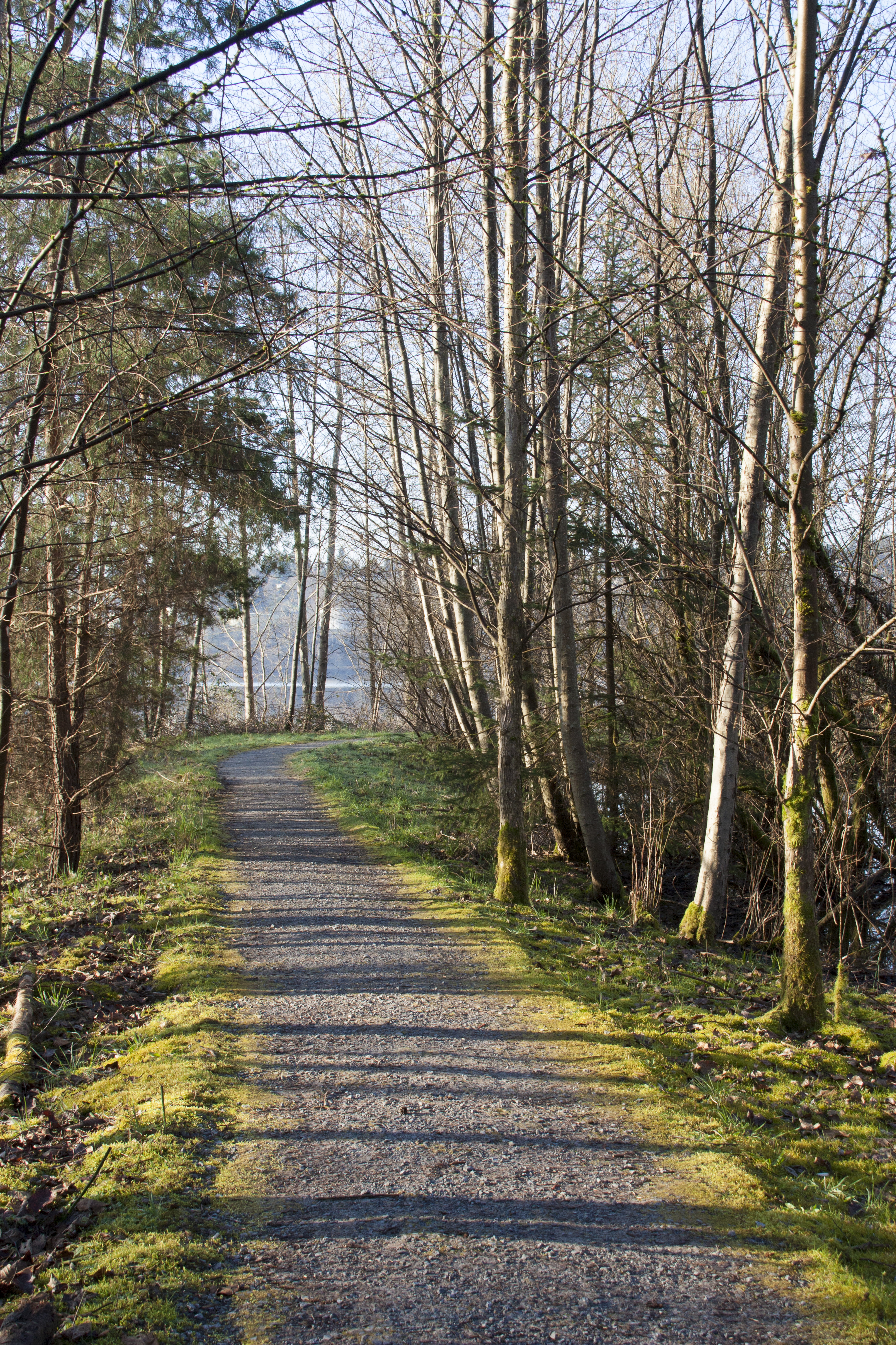 A trail in Maplewood flats